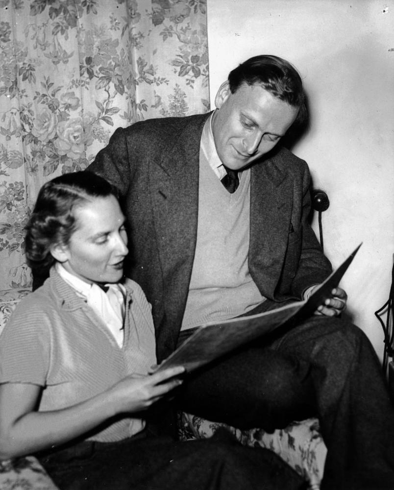 Yehudi Menuhin and his sister Hephzibah Yehudi Menuhin, violinist on a visit to Australia. His sister Hephzibah accompanied him. (Description supplied with photograph.).